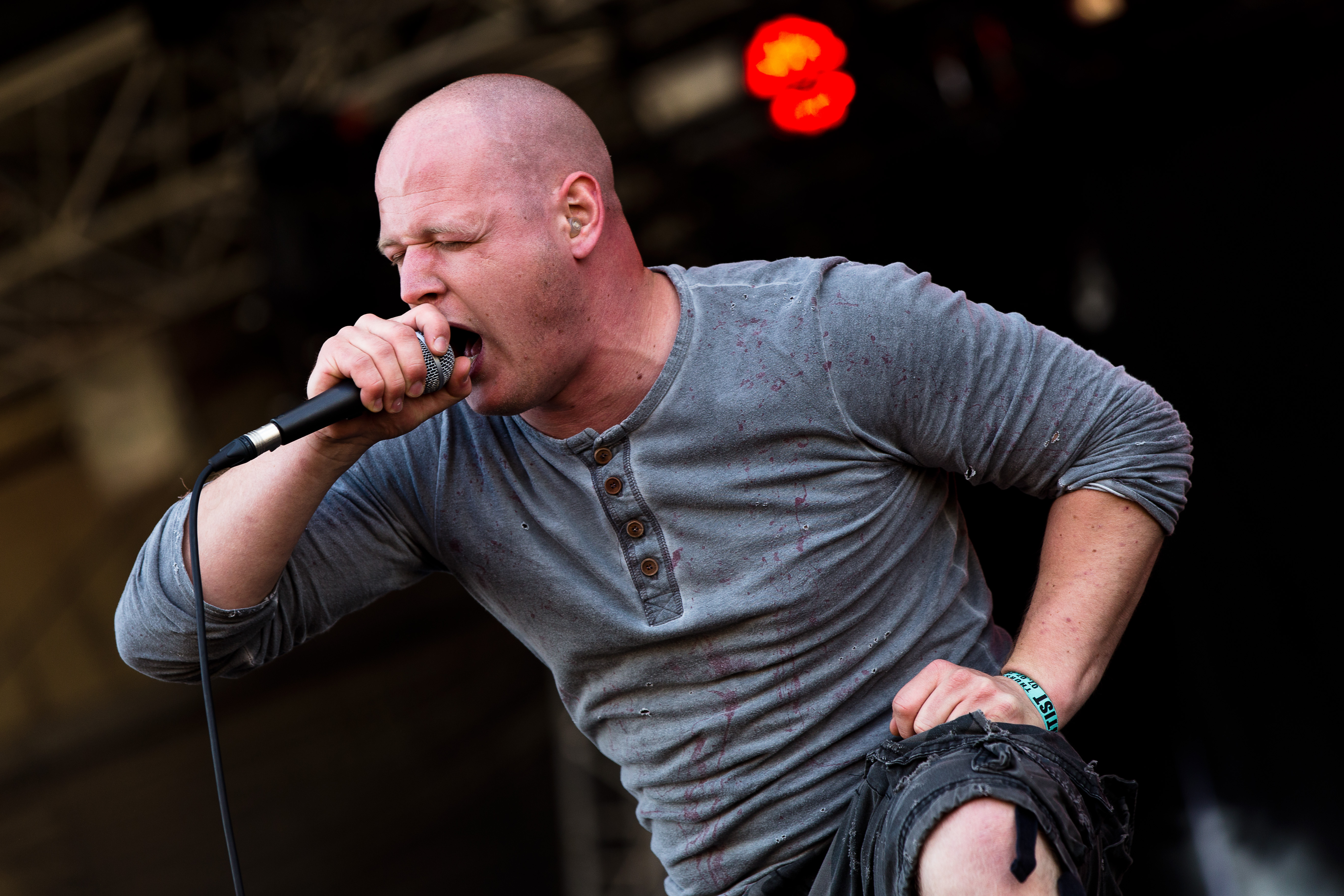 The German death metal band Hackneyed at the Rockharz Open Air 2016 in Ballenstedt/Germany.